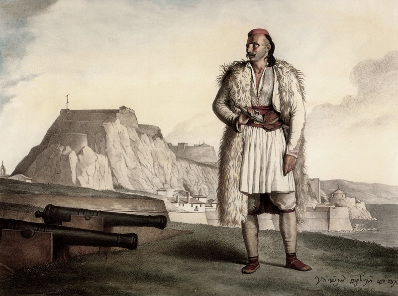 A Souliot in Corfu Nikolos Pervolis, by Louis Dupré - 1827